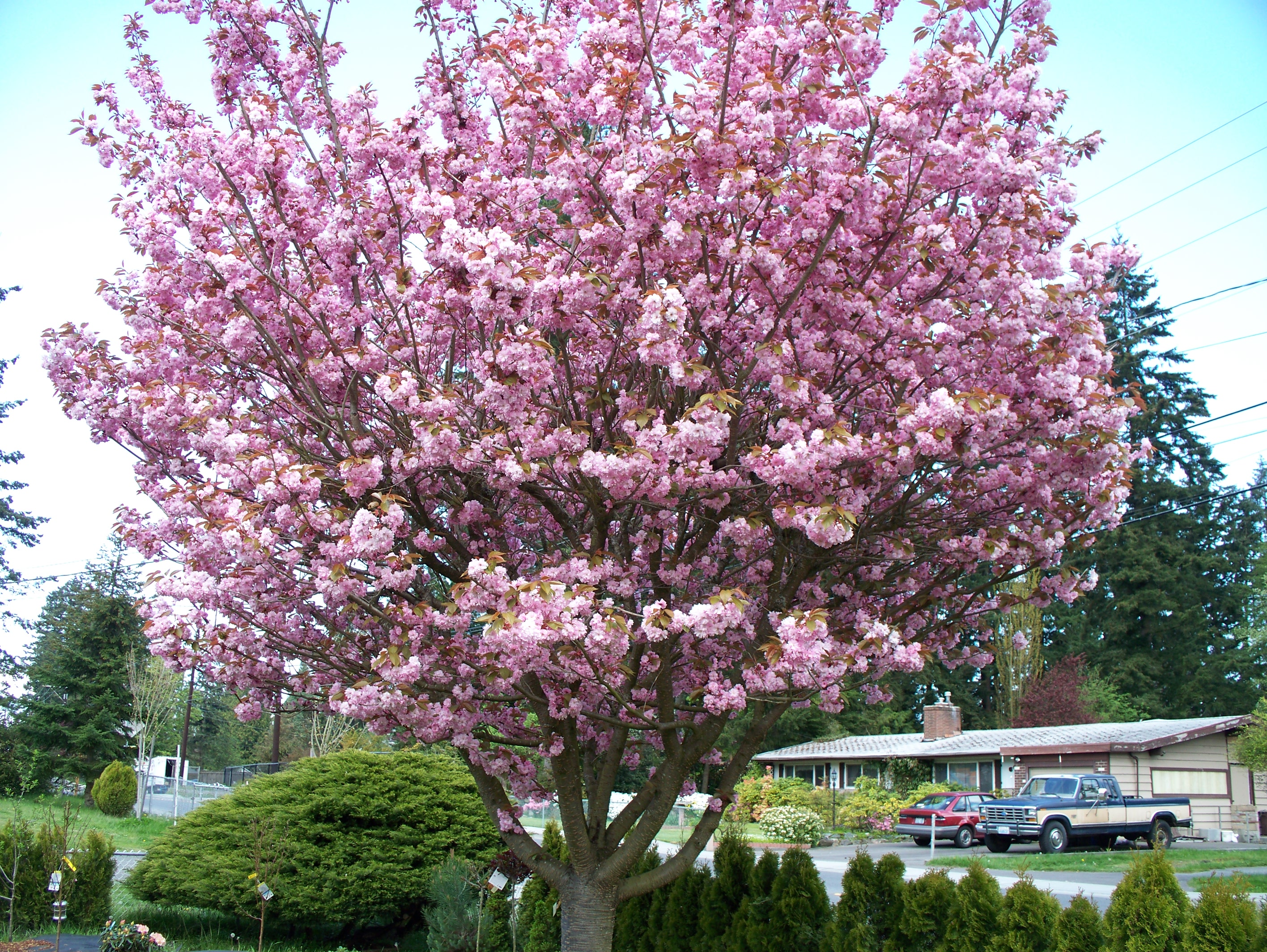 Ornamental Cherry Tree In Full Bloom, Washington State.